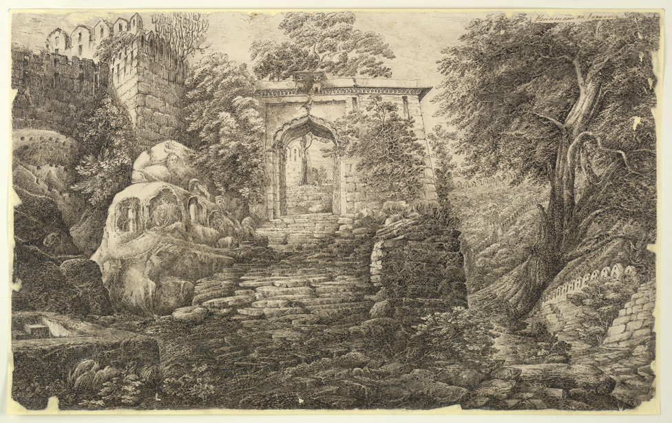 A shrine outside the fifth gate, Hanuman Darwaza, in Kalinjar fort